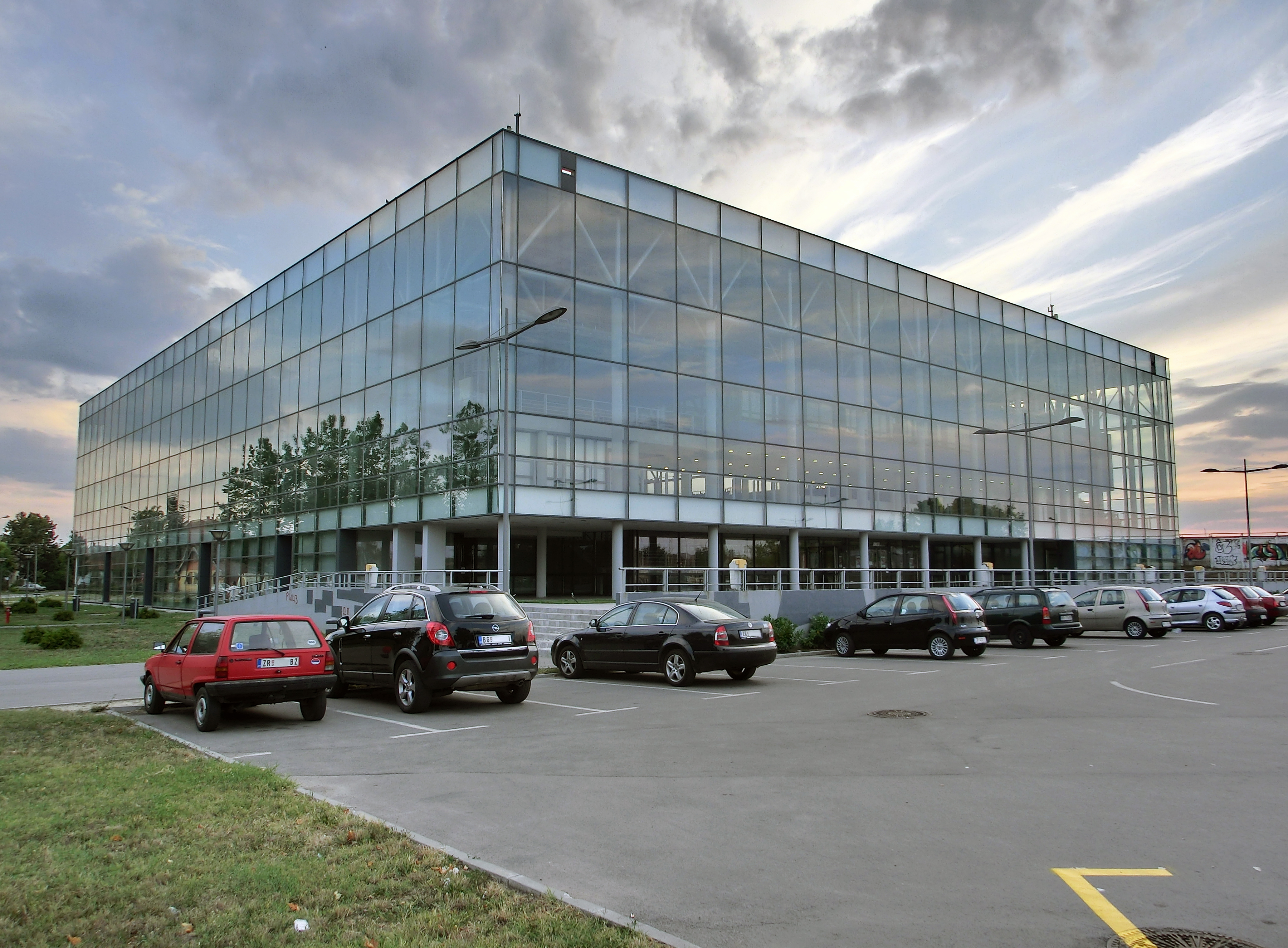 Sports Hall Kristalna dvorana Zrenjanin, Serbia